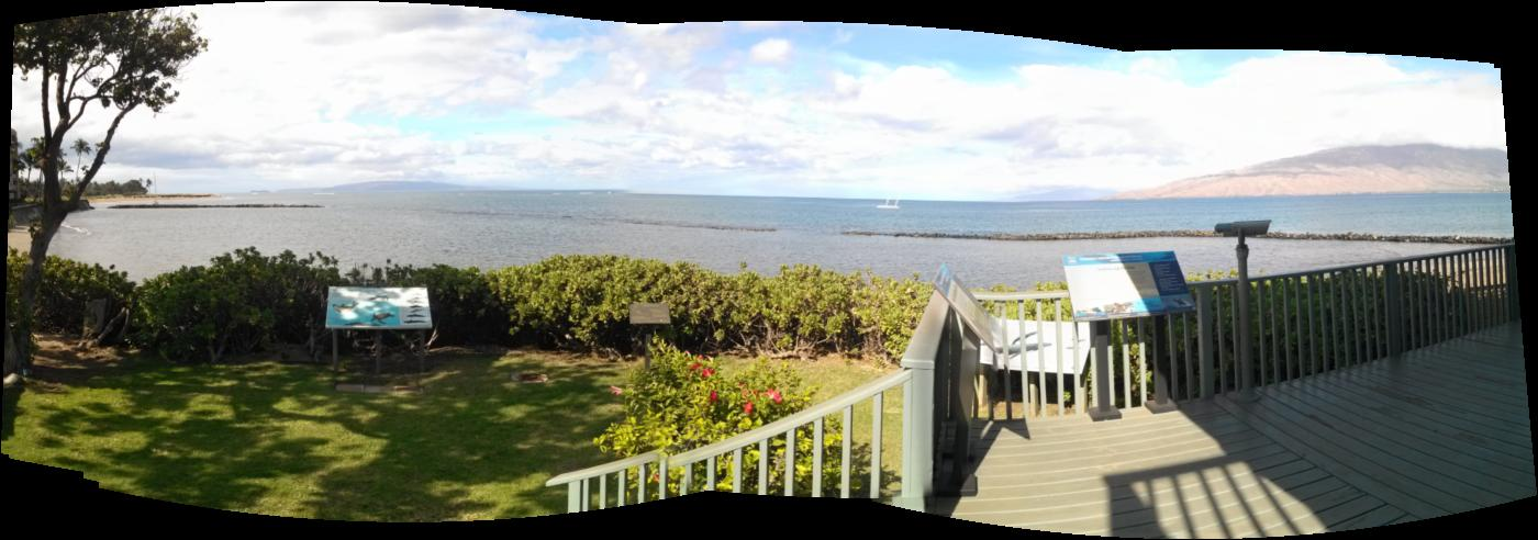 Kalepolepo Fishpond panorama seen from the Hawaiian Islands Humpback Whale National Marine Sanctuary facility. Several photos stitched together with autostitch.